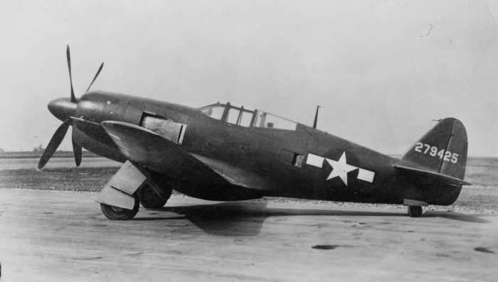 PictionID:47090370 - Catalog:16_008242 - Title:Curtiss XP-60E 42-79425 Curtiss - Filename:16_008242.tif - Ray Wagner was Archivist at the San Diego Air and Space Museum for several years and is an author of several books on aviation --- ---Please Tag these images so that the information can be permanently stored with the digital file.---Repository: San Diego Air and Space Museum